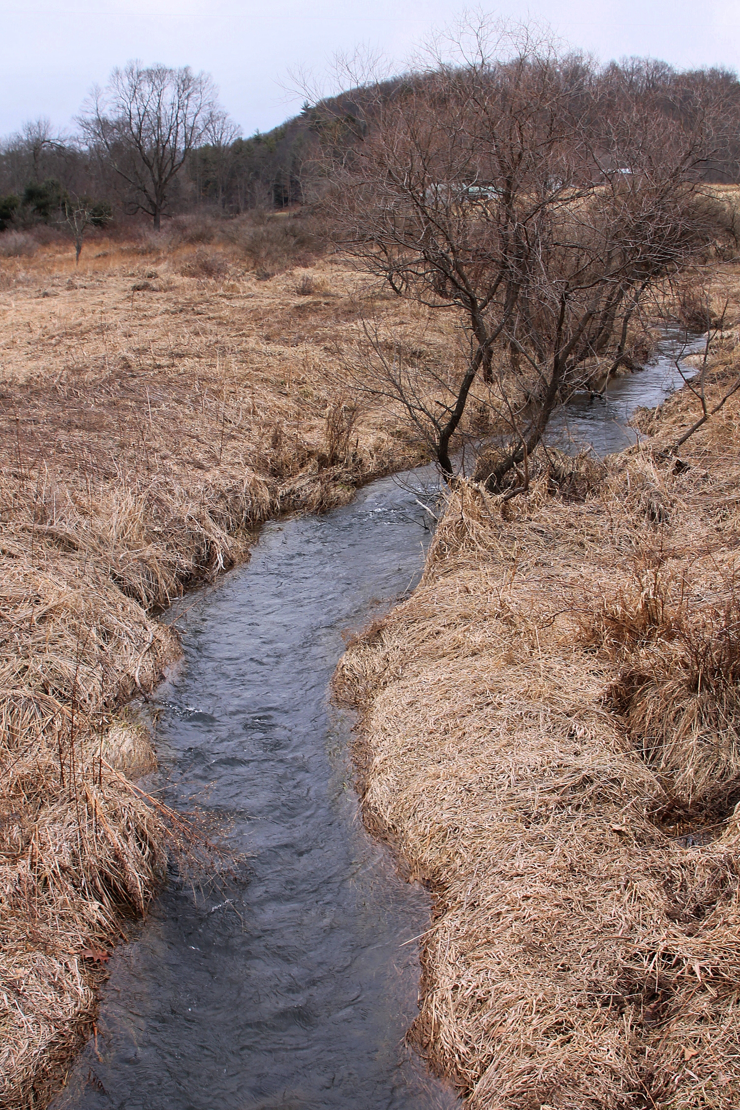 East Branch Raven Creek looking upstream near the confluence of the tributary Stine Hollow